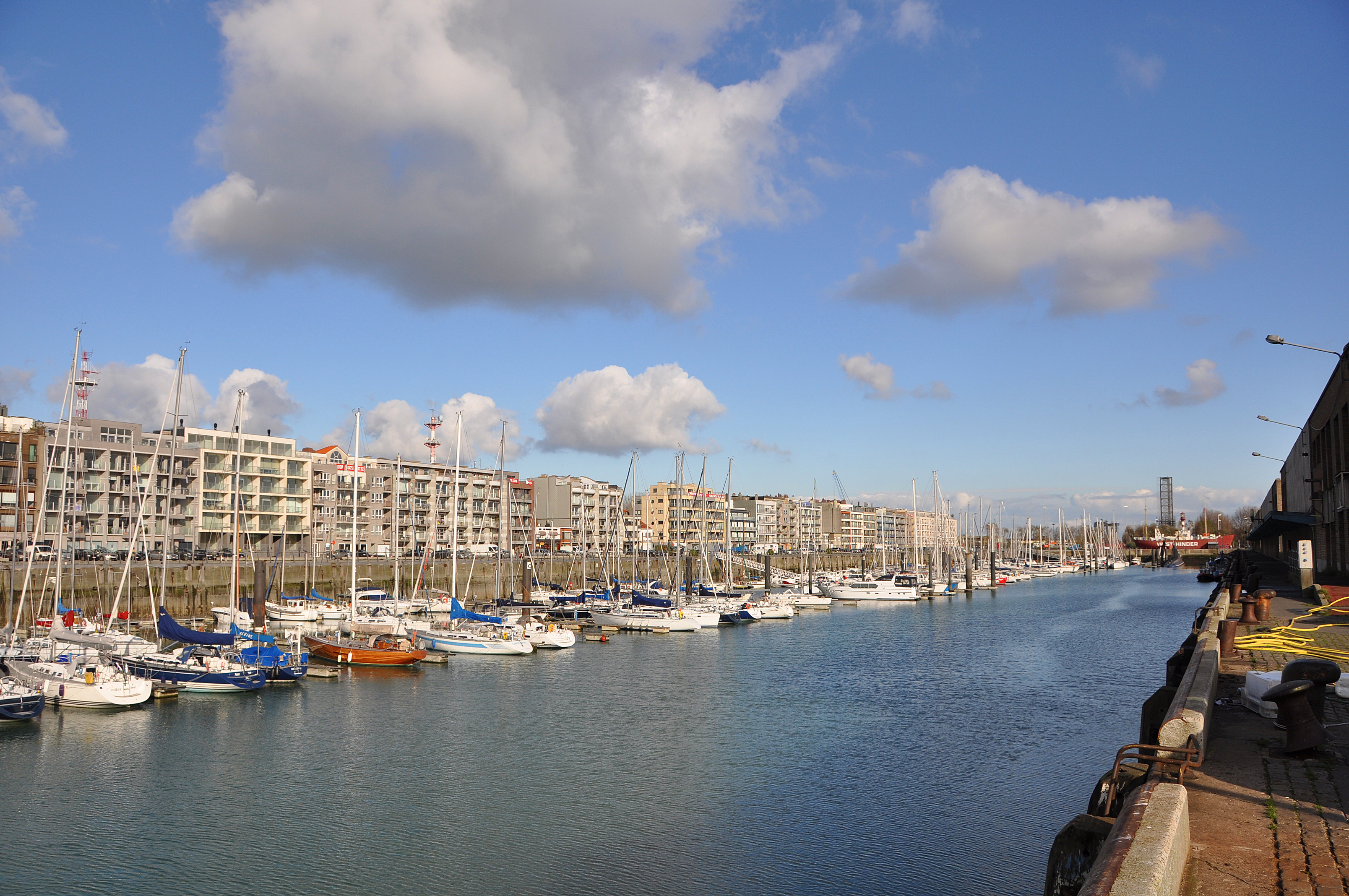 Zeebrugge (Belgium): marina (former fishing port)